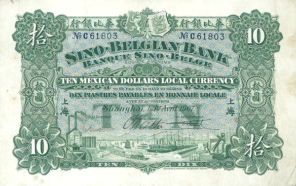 A banknote issued by a foreign bank operating in China, the Chinese government allowed for certain foreign banking corporations to become "note issuing authorities", these banknotes were issued to circulate in China.